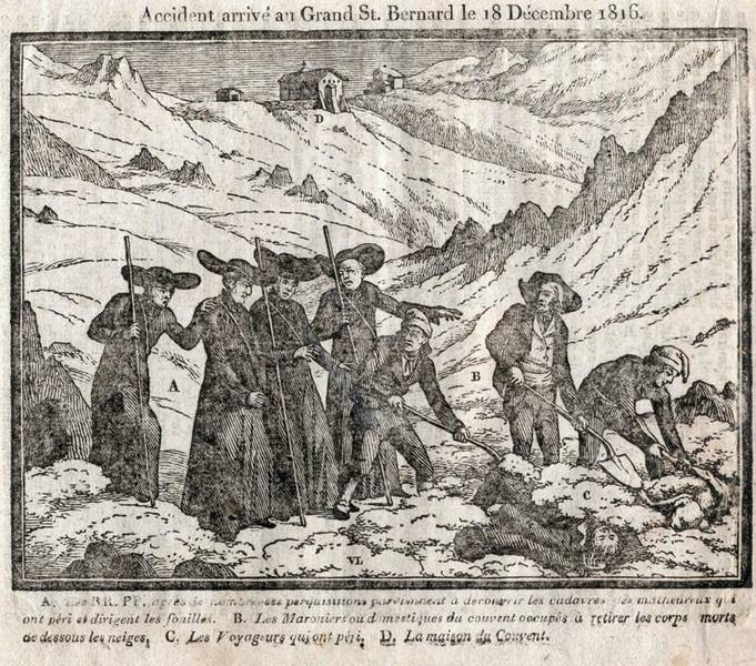 Avalanche in Grand-Saint-Bernard in the newspaper Le Messager Boîteux. Accident happened the 18 December of 1816.